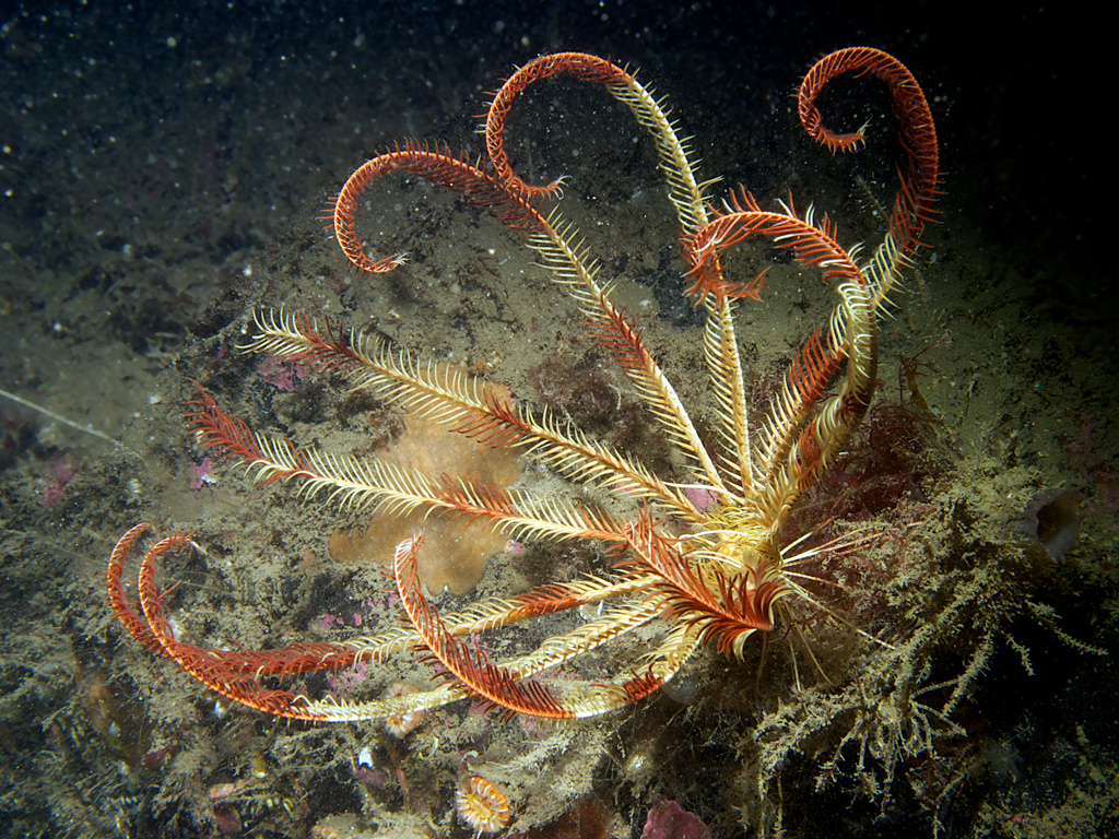 Leptometra celtica, a feather star. The Garvellachs, western Scotland, UK.